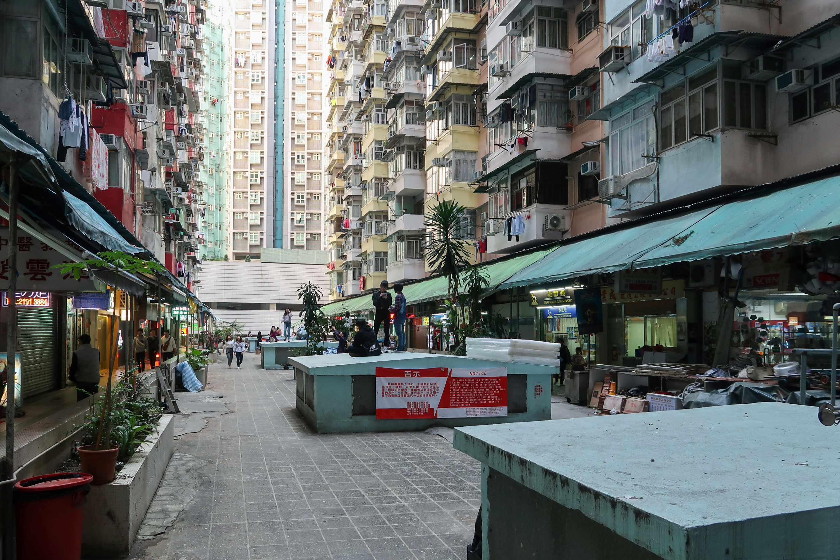 Yick Cheong Building podium